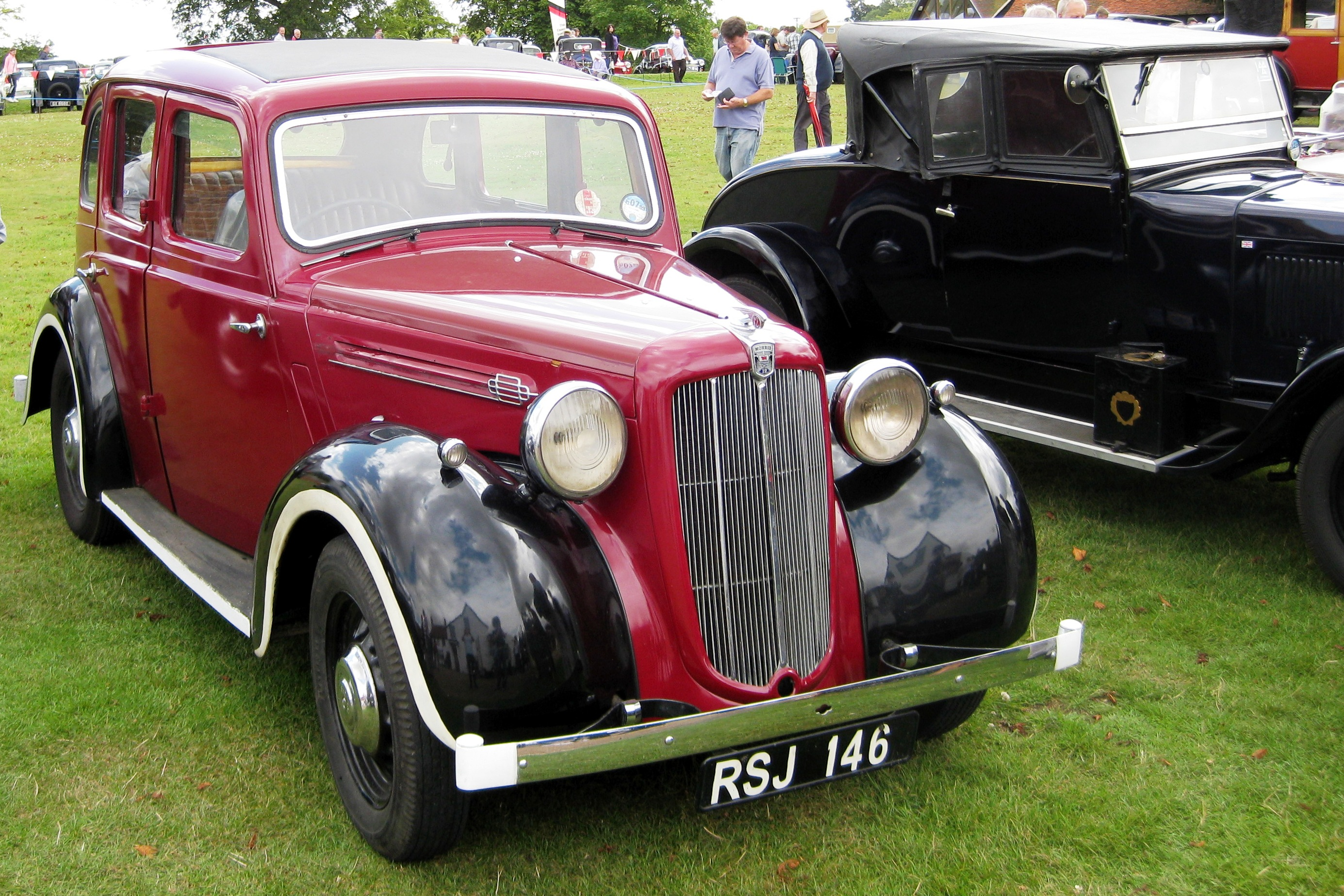 Morris 12 first registered 1939.